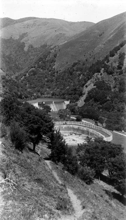 View looking over the Brook reservoir and dam, from the Collier collection